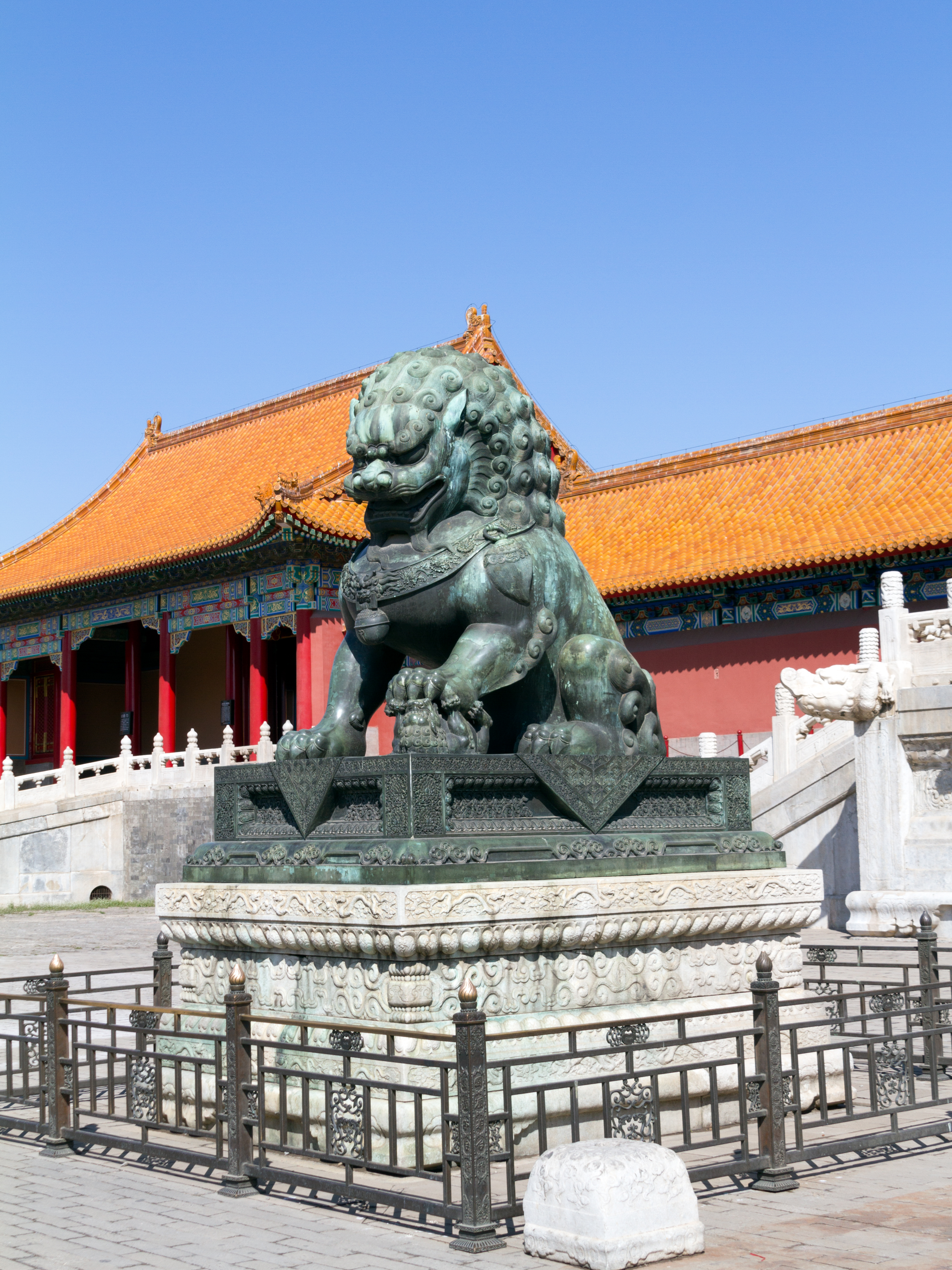 Guardian Lion (female) at the front of the Gate of Supreme Harmony